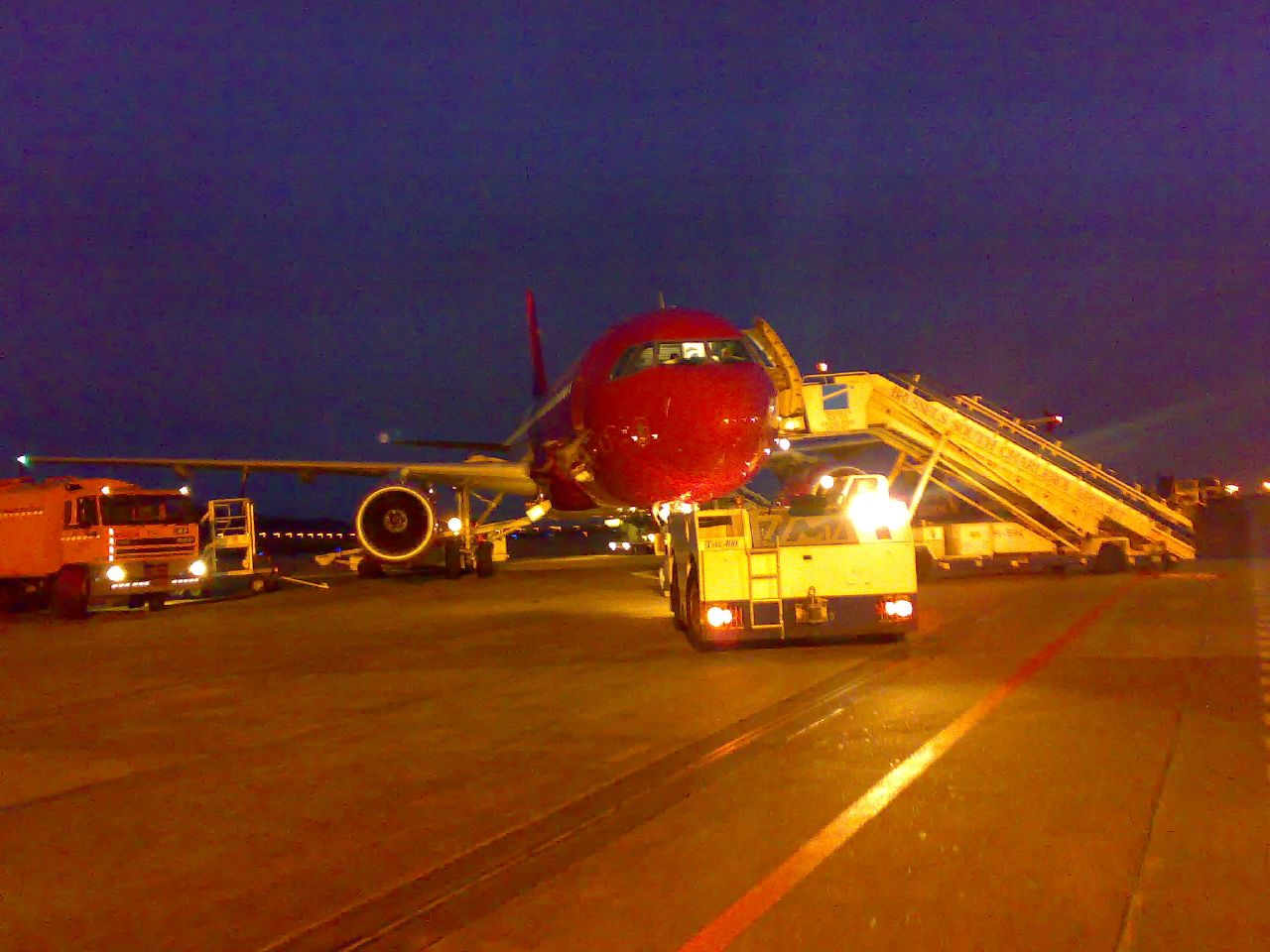 Wizzair A320 parked at Brussels-Charleroi airport